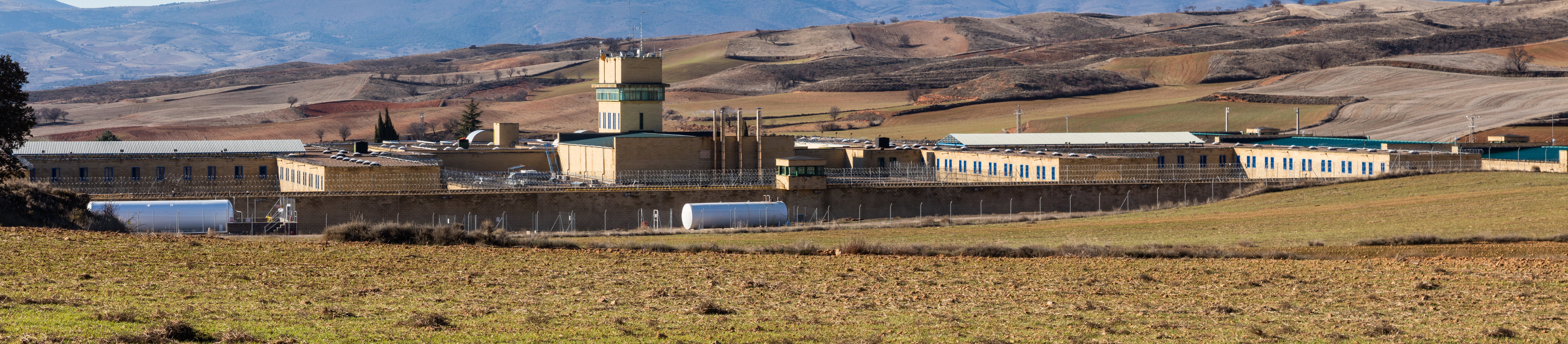 Daroca Prison, Zaragoza, Spain